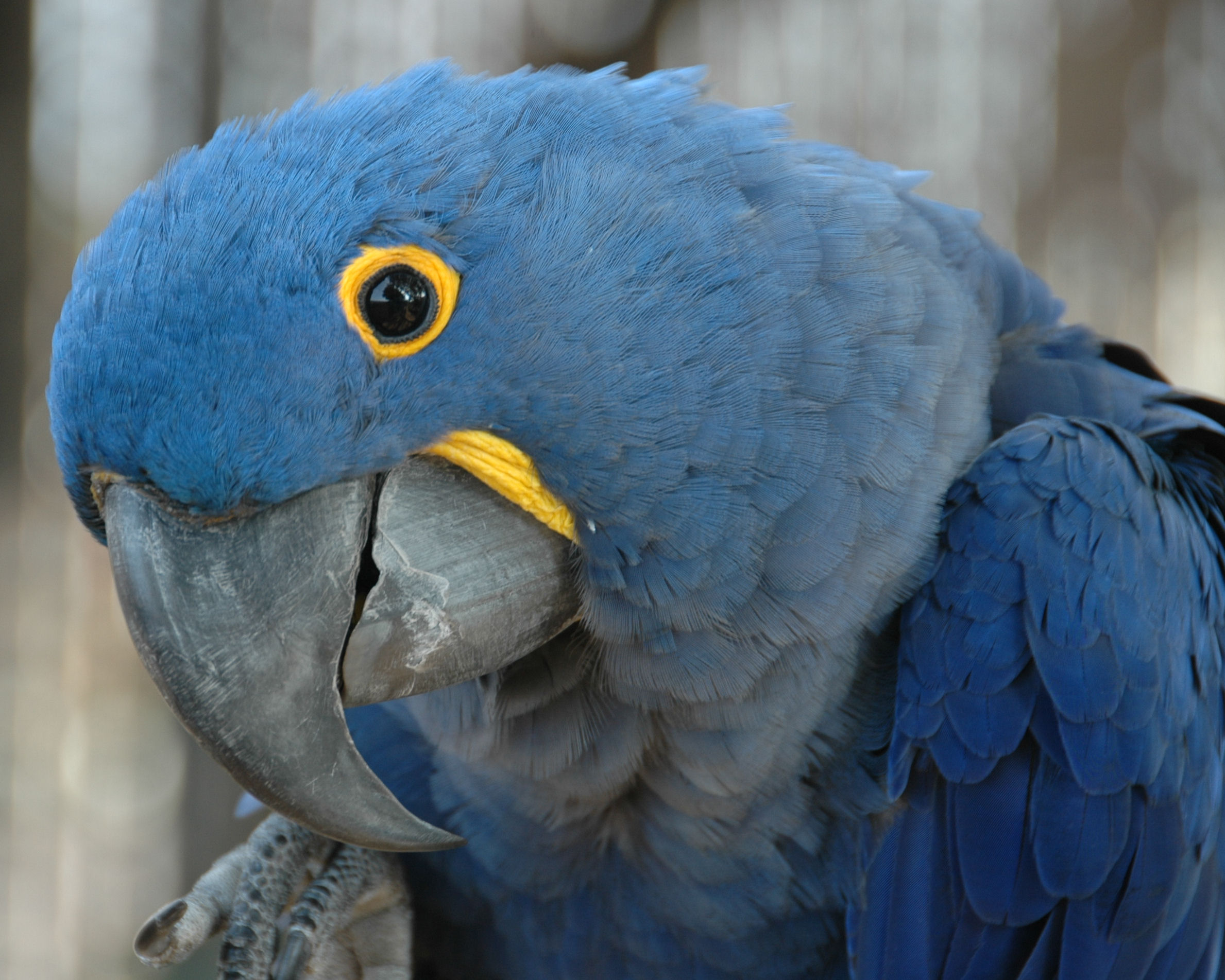 Hyacinth Macaw (Anodorhynchus hyacinthinus) showing side of head and neck.